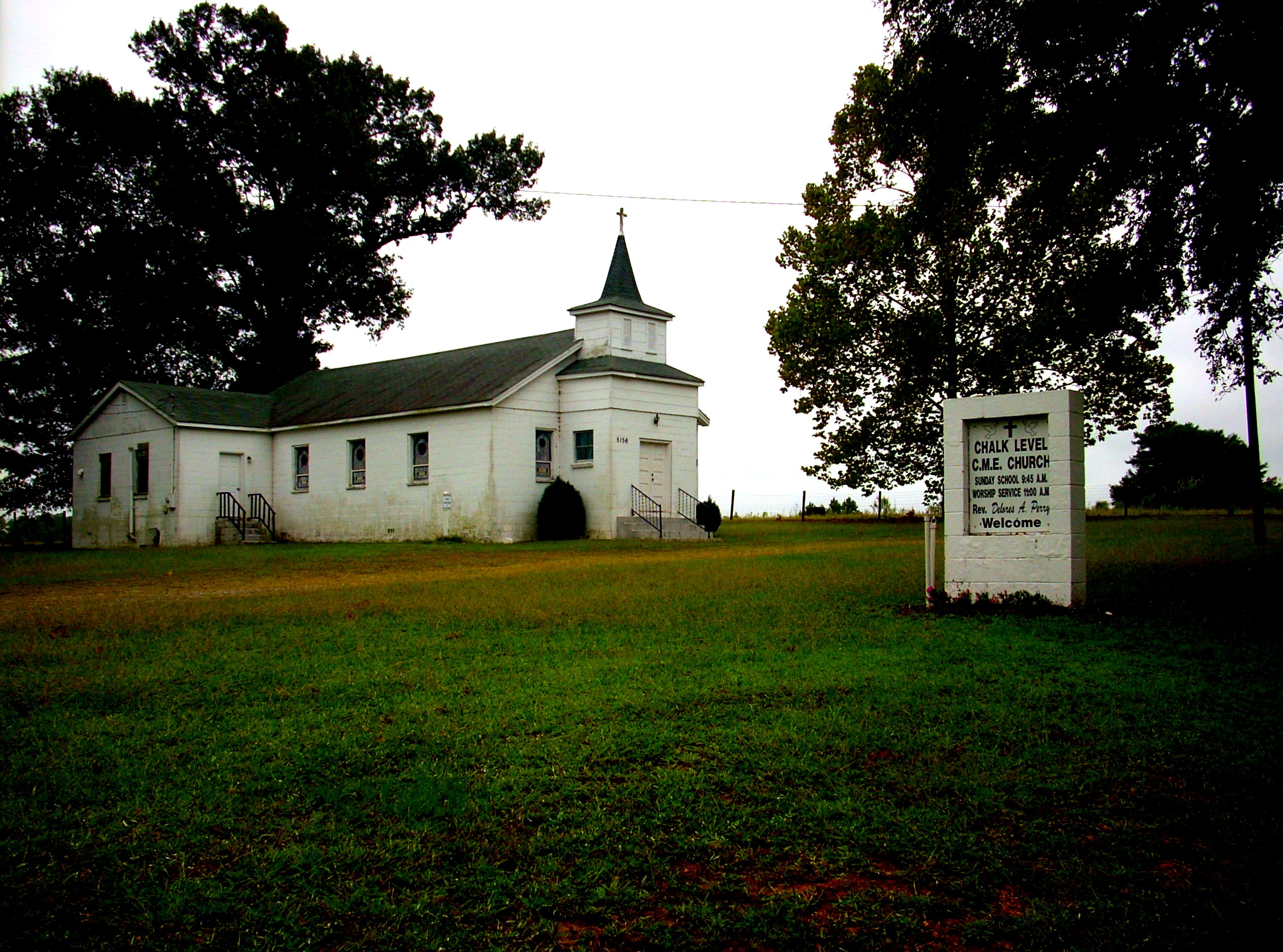 Chalk Level Christian Methodist Episcopal Church on River Road near Fuquay-Varina, North Carolina.